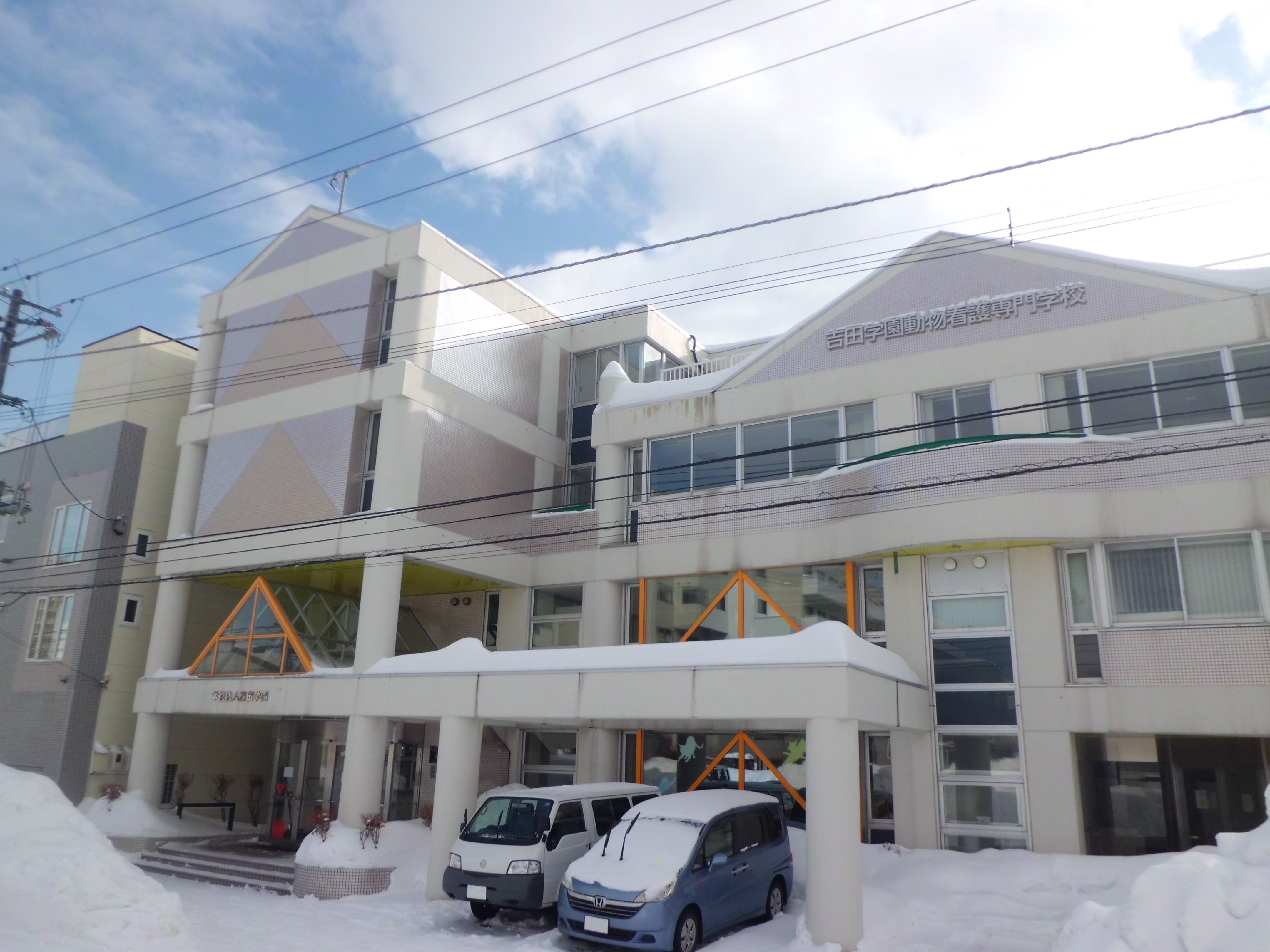 Yoshida Gakuen Animal Care College